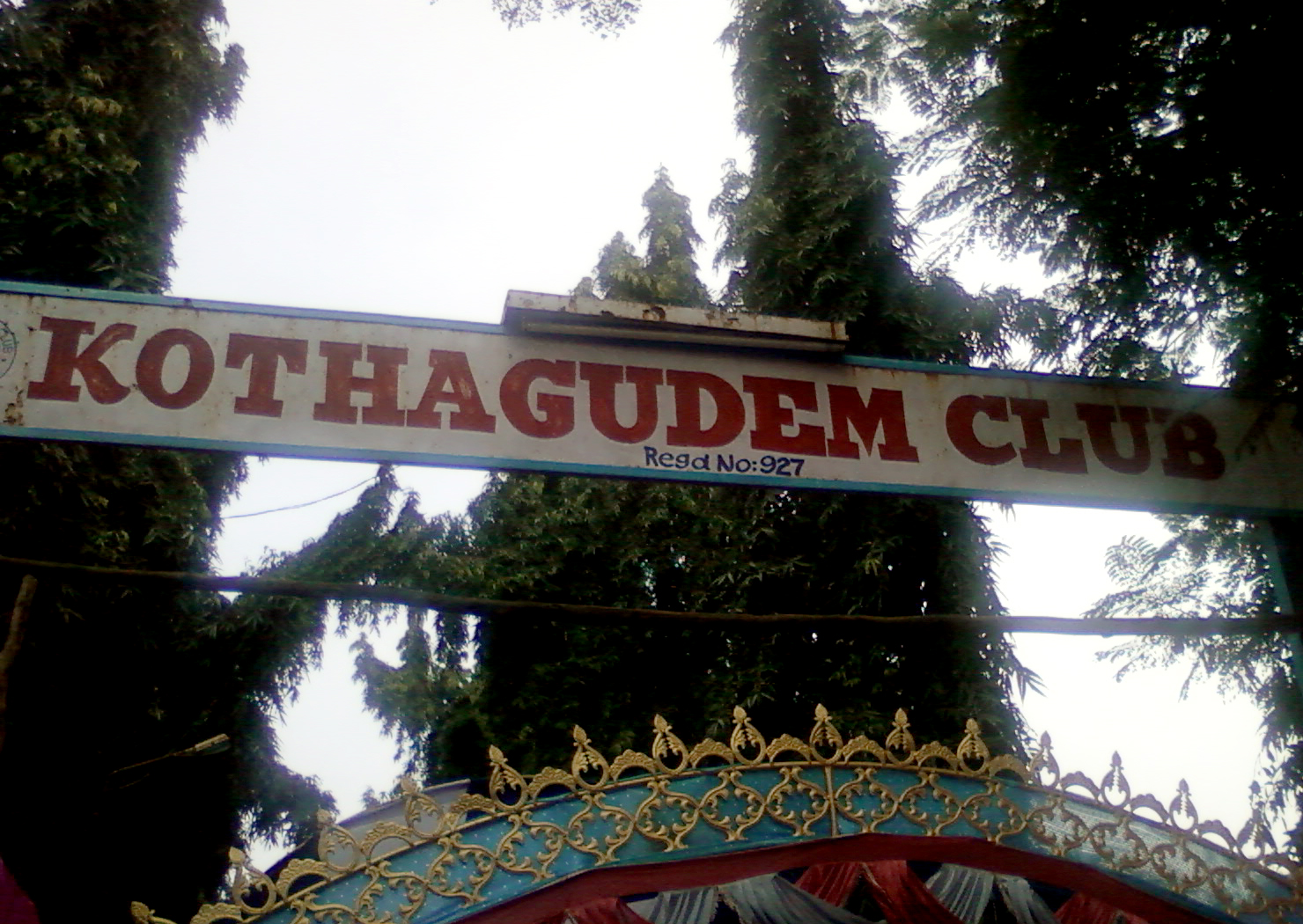 Kothagudem club entrance, Kothagudem in Khammam district, Andhra Padesh